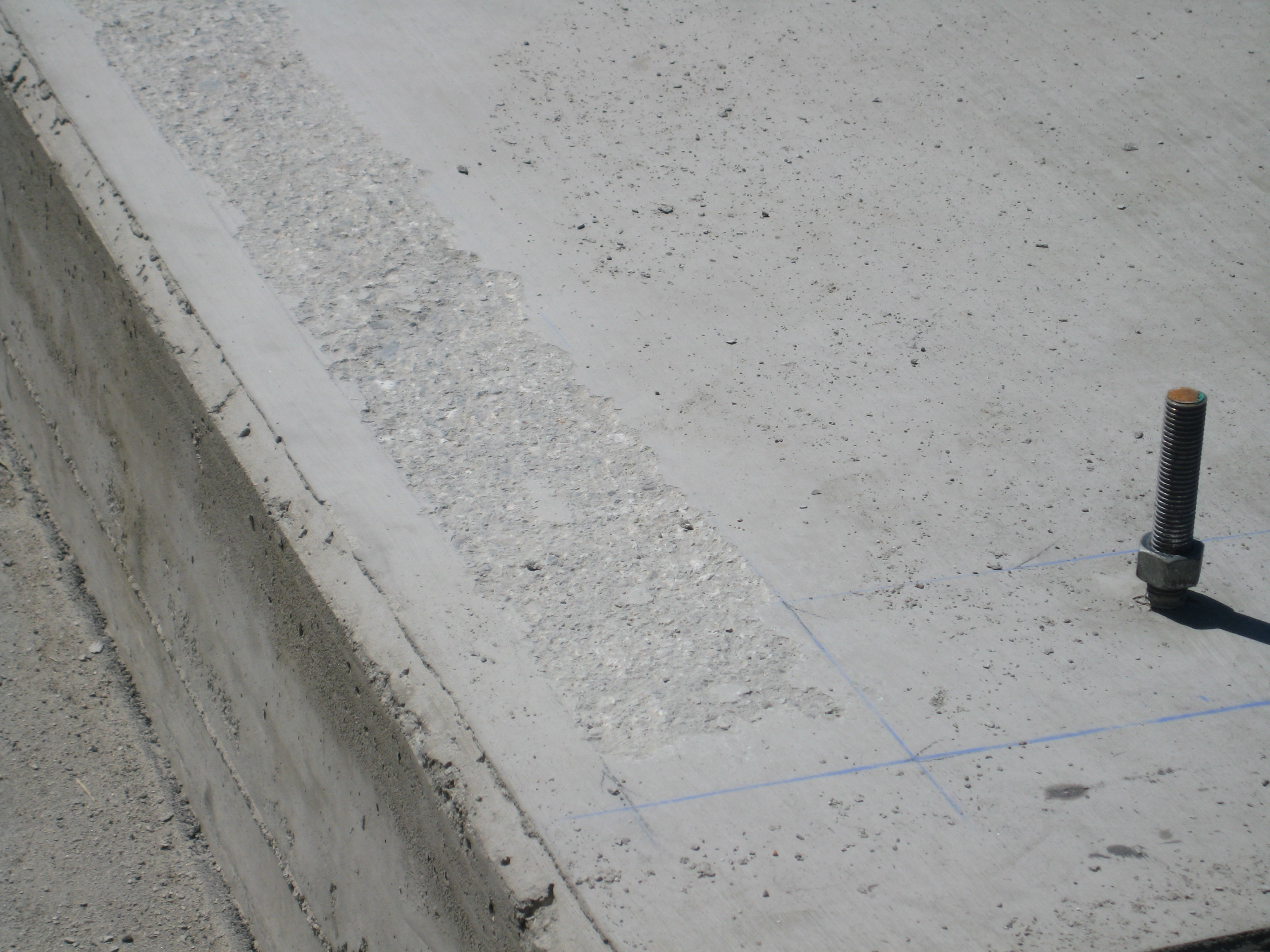 Closeup of scabbled concrete during the process of preparing a foundation for grout installation.